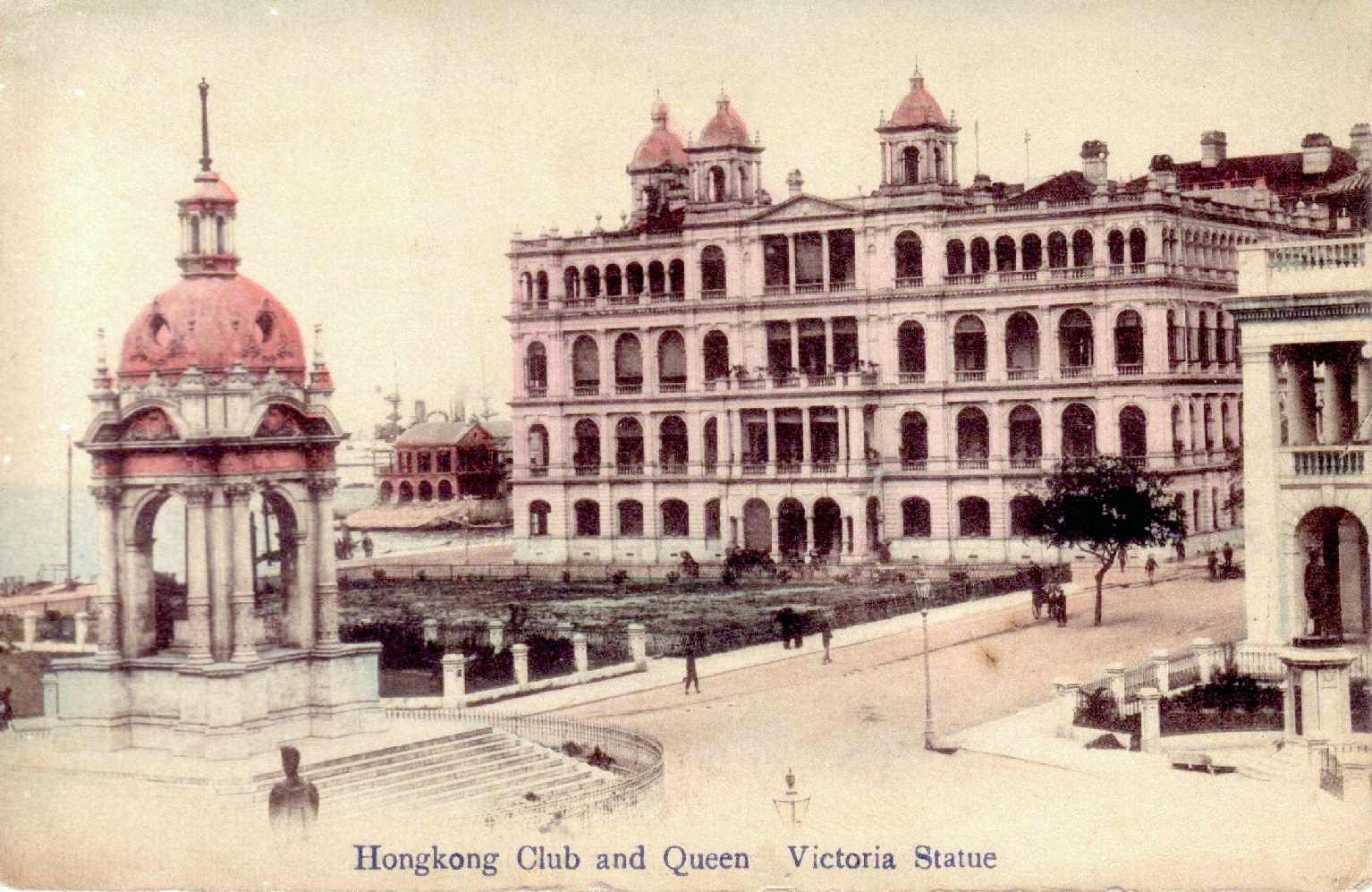 Hongkong Club and Queen Victoria statue (Postcard c.1905-1910), unknown photographer and publisher